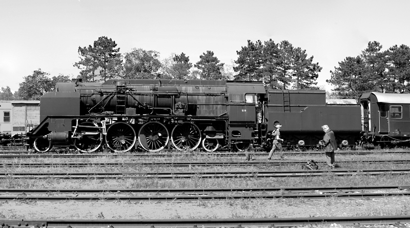 Steam locomotive 12.10 at the opening of the ErlebnisWeltbahn - Eisenbahnmuseum Strasshof on april 22 2007 - shot by myself. The 12.10 was the last new construction of a steam locomotive in Austria. With over 3000 hp it also was the strongest locomotive ever built in Austria.